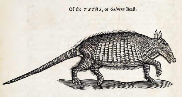 This woodcut is an illustration from the book The history of four-footed beasts and serpents by Edward Topsell. p